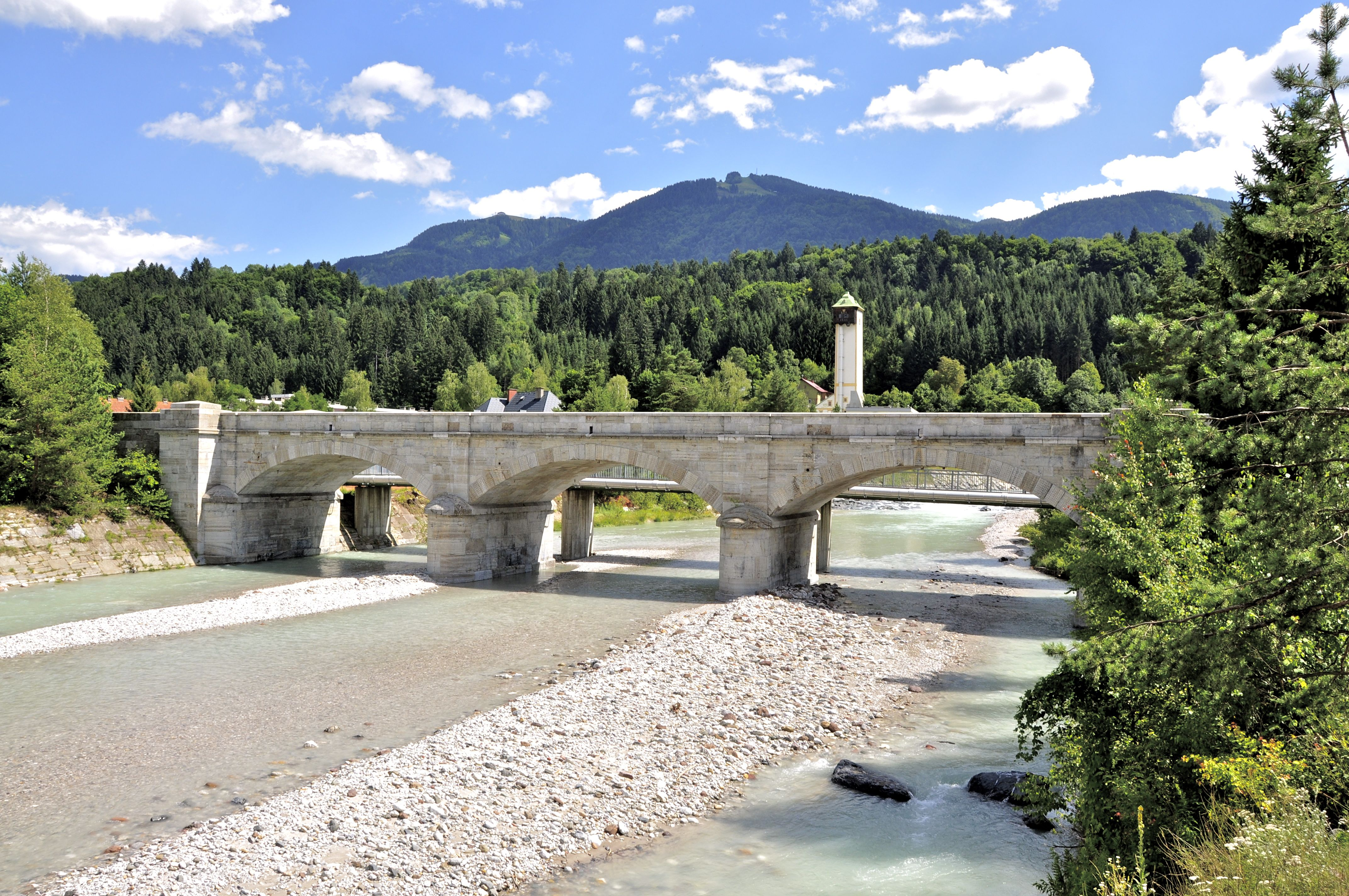 Bridge across the river Gailitz between the municipalities Hohenthurn and Arnoldstein, district Villach Land, Carinthia, Austria, EU